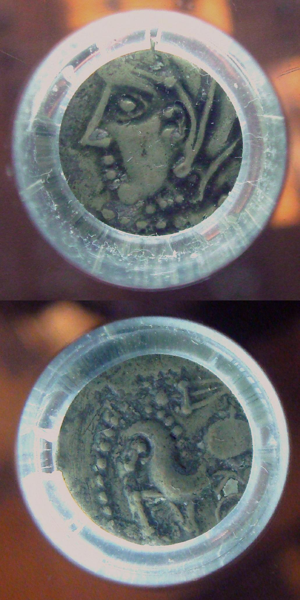 Bituriges_Cubi_denier_Gaulois_silver_1780mg